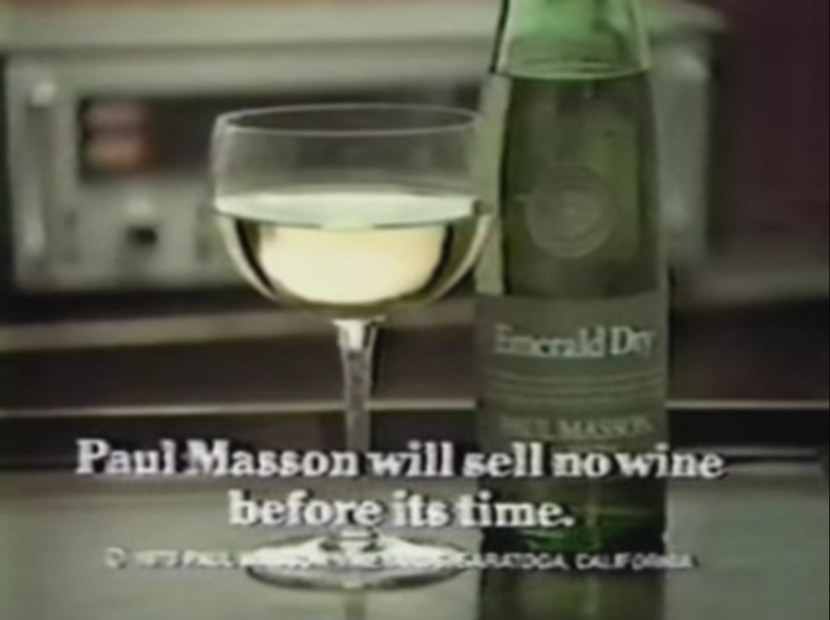 1970s wine advert